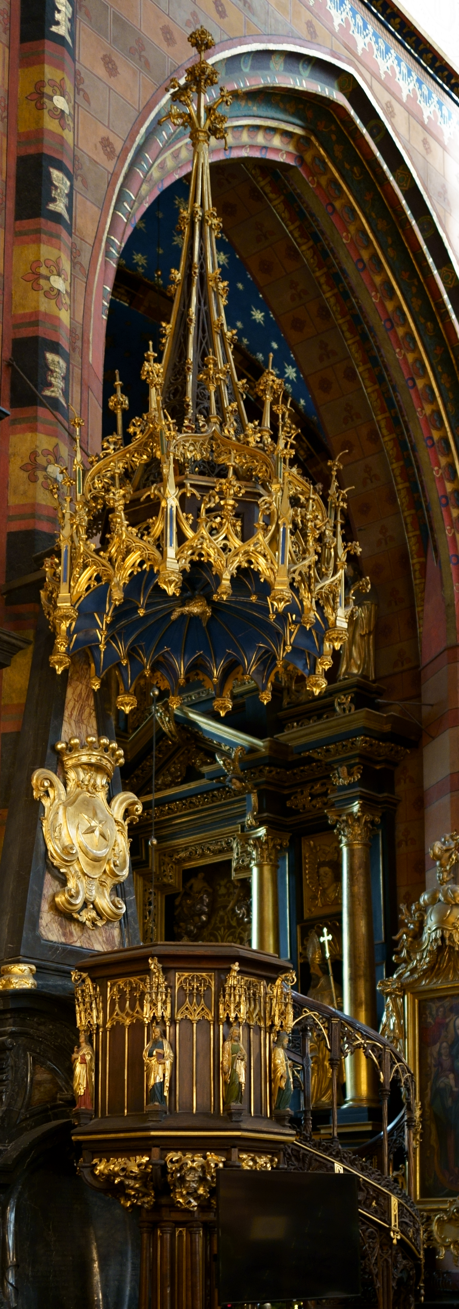 krakow st mary's church pulpit Wit Wisz